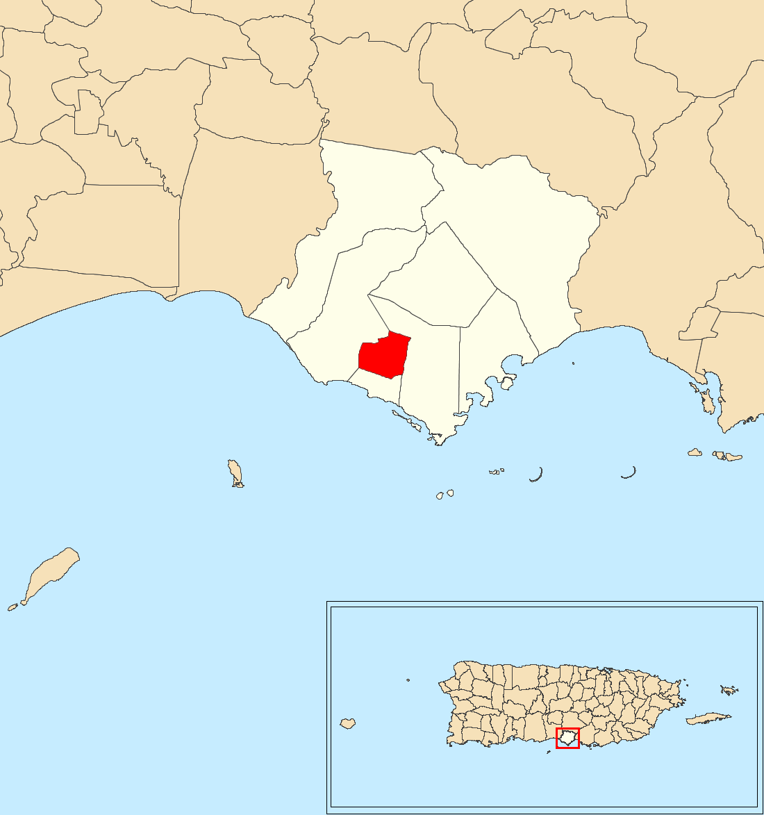 Santa Isabel barrio-pueblo, Santa Isabel, Puerto Rico locator map